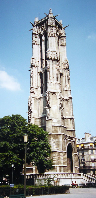 Saint-Jacques Tower